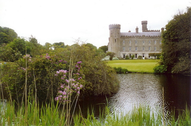 Barmeath Castle, Co. Louth Large castellated house, a remodelling in the 1830s of a mid-18th century house of which this was the original front. Incorporates a medieval tower house. Home of the Anglo-Norman Bellew family.